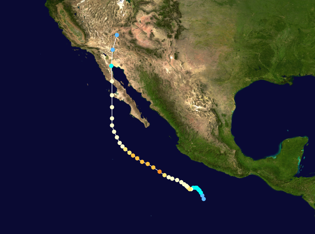 Hurricane Nora (1997) track. Uses the color scheme from the Saffir-Simpson Hurricane Scale.